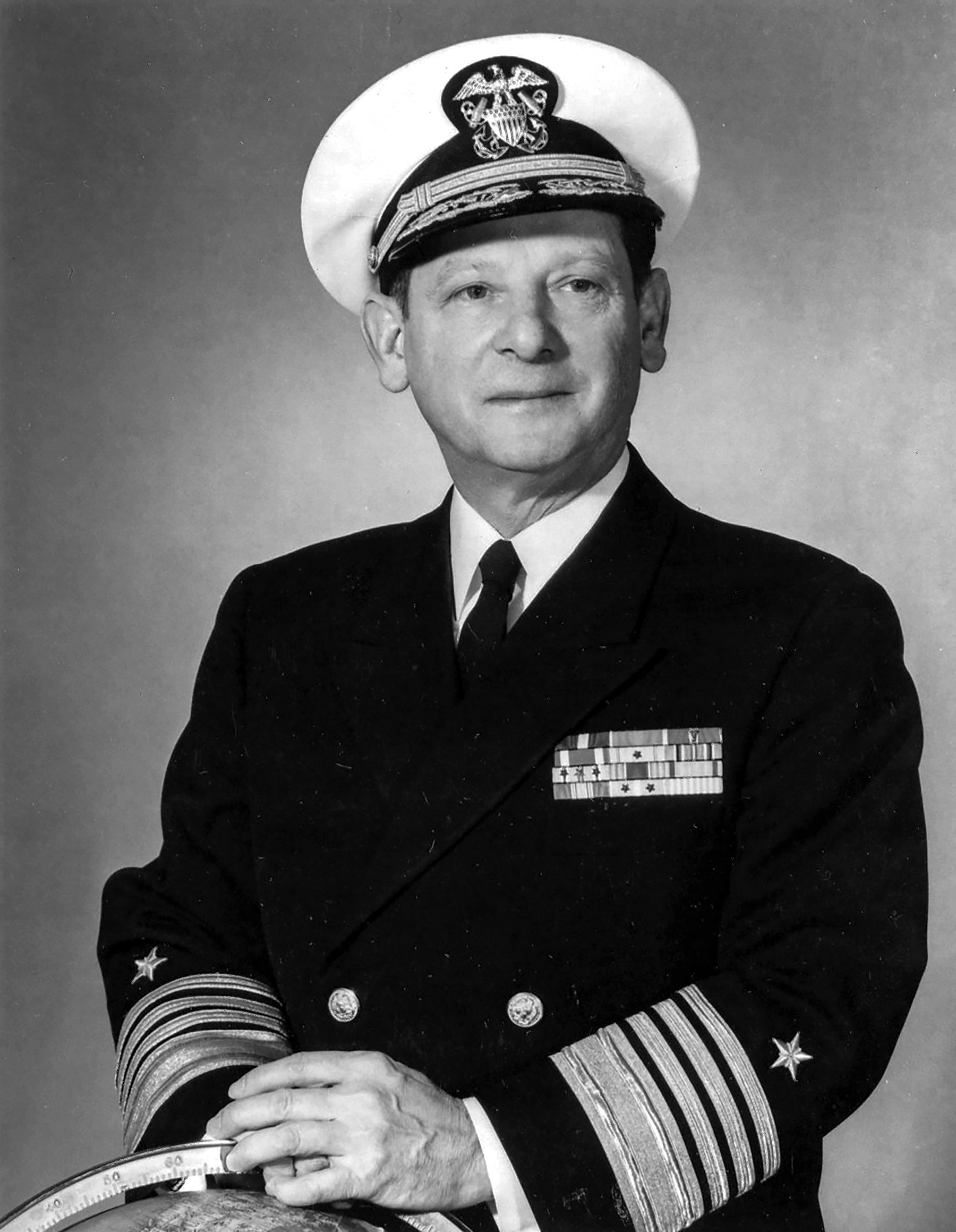 Admiral Horacio Rivero, Jr., USN